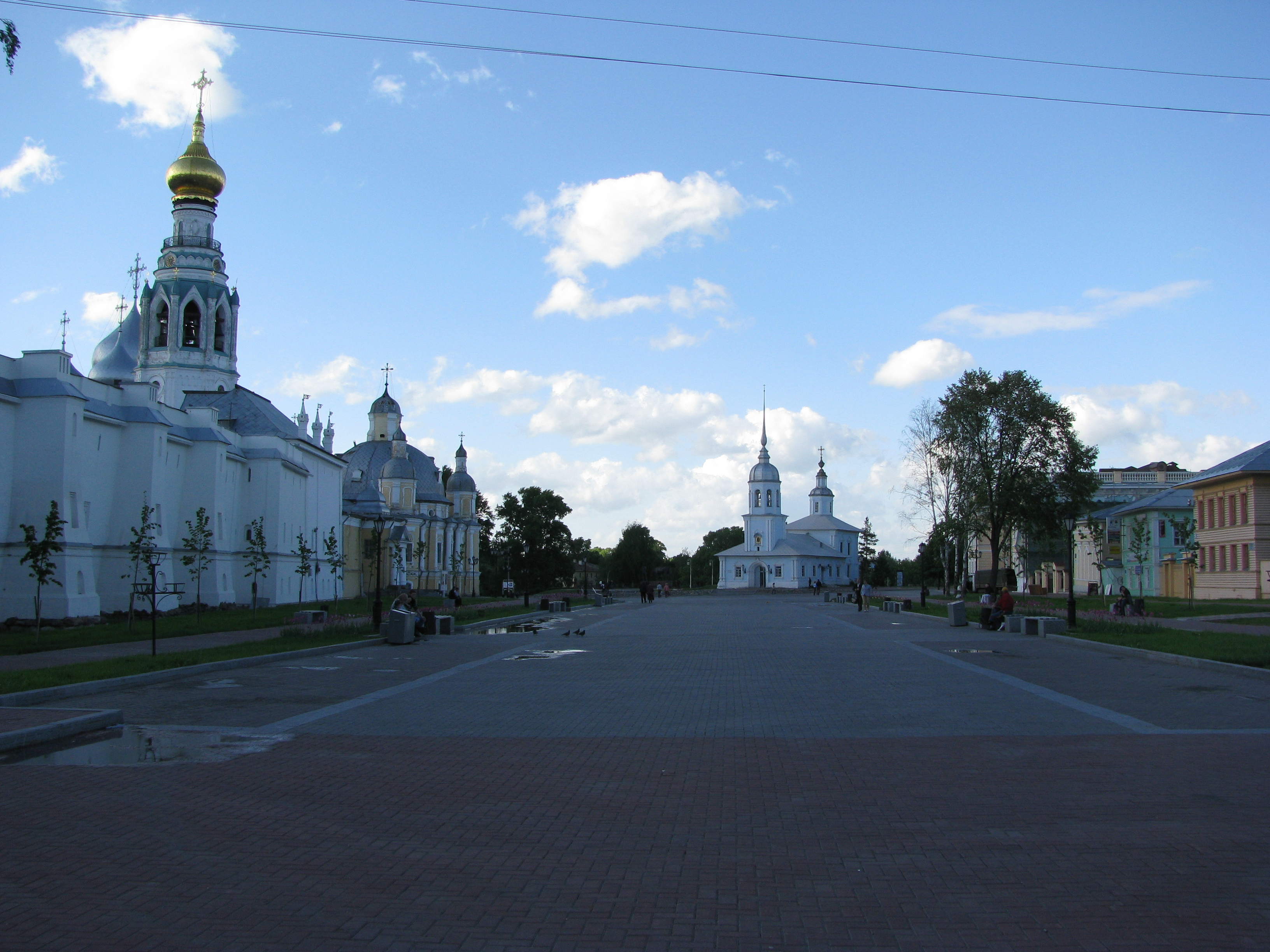 Kremlyovskaya square in Vologda. View from Prospekt Pobedy.